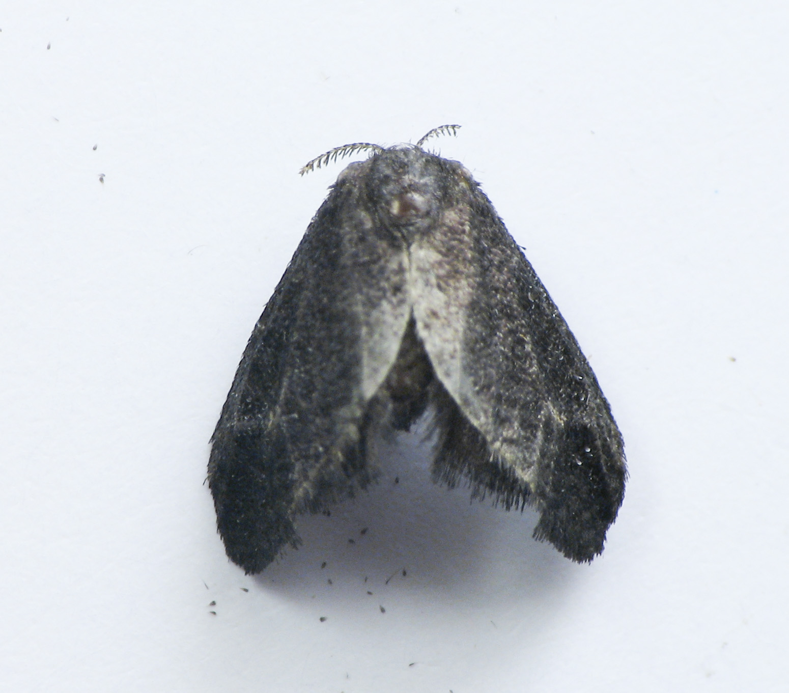 Adult female Fulgoraecia exigua (Planthopper Parasite Moth - Hodges#4701). Size: Body length 5 mm, to wing tip 6 mm. Pennypack Restoration Trust, Montgomery County, Pennsylvania, USA.